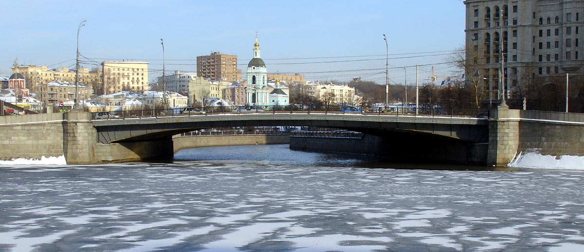 Maly Ustinsky Bridge, Moscow, Russia.